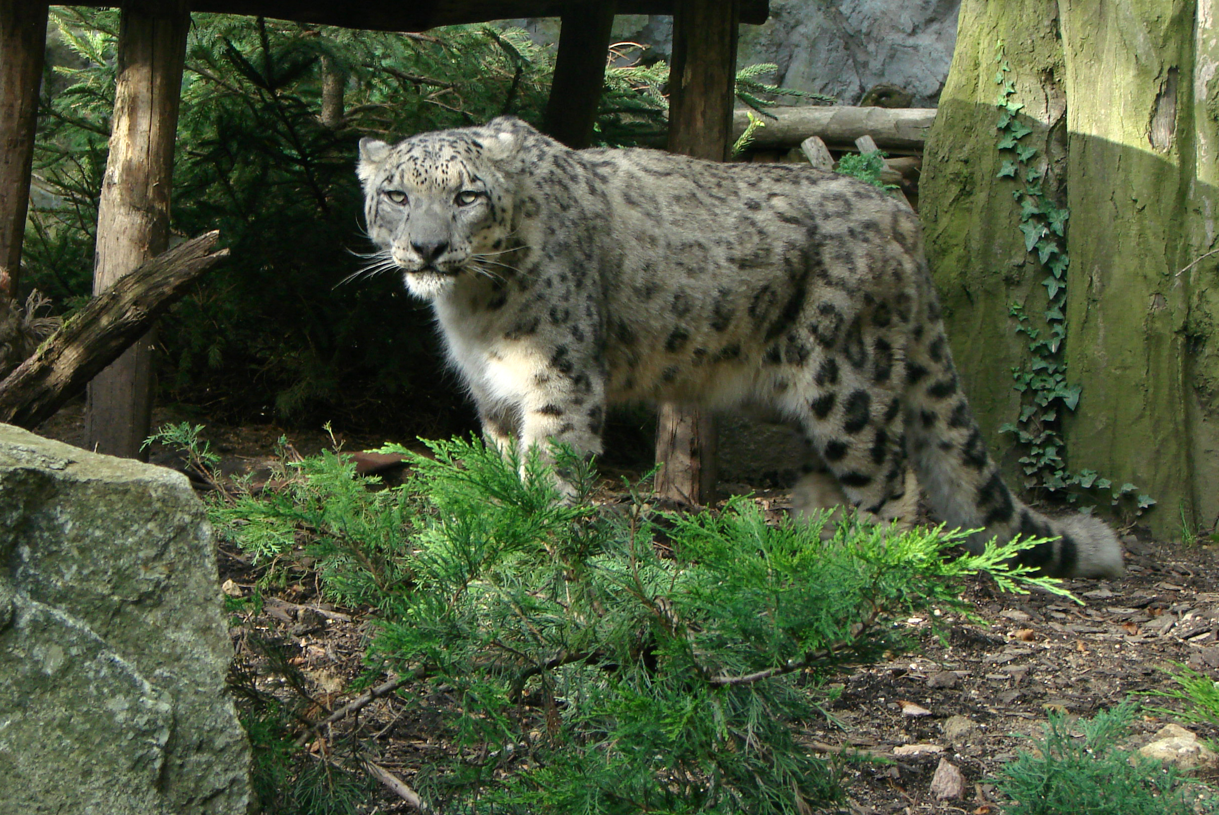 Snow leopard (Uncia uncia), zoo d'Amnéville, France.